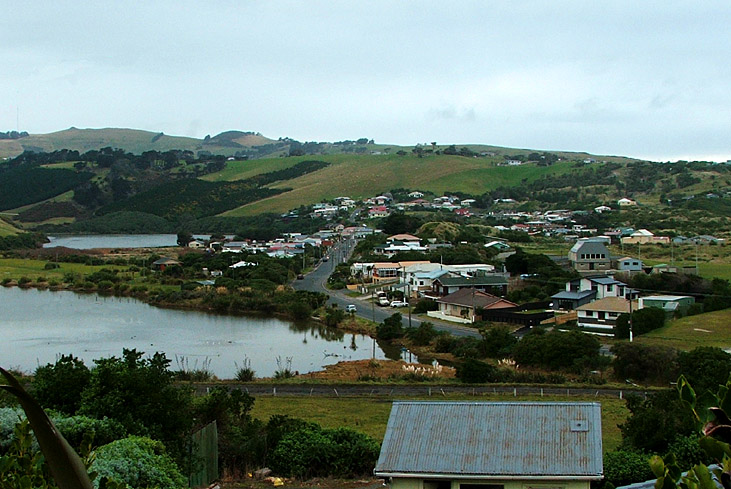 Photograph of Ocean Grove, Dunedin, New Zealand.